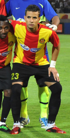 Espérance Sportive de Tunis before African Champions League matchh with Wydad Casablanca